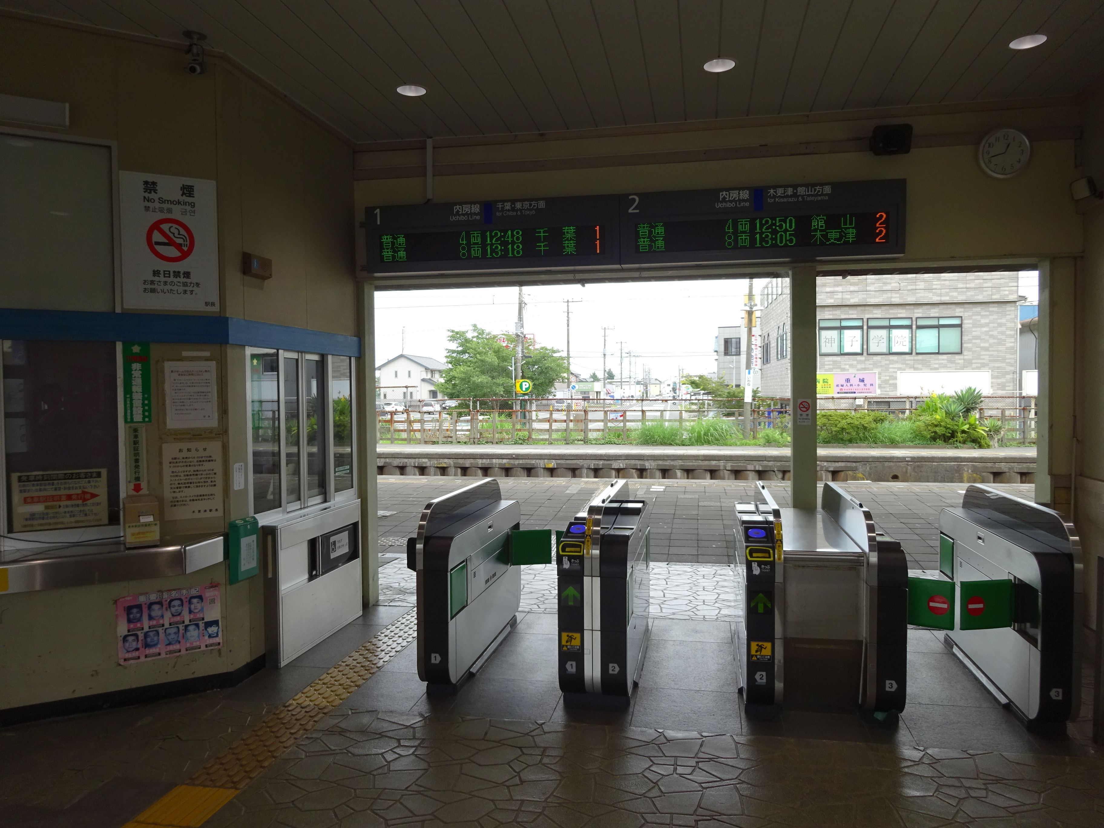 Ticket barriers of Iwane Station